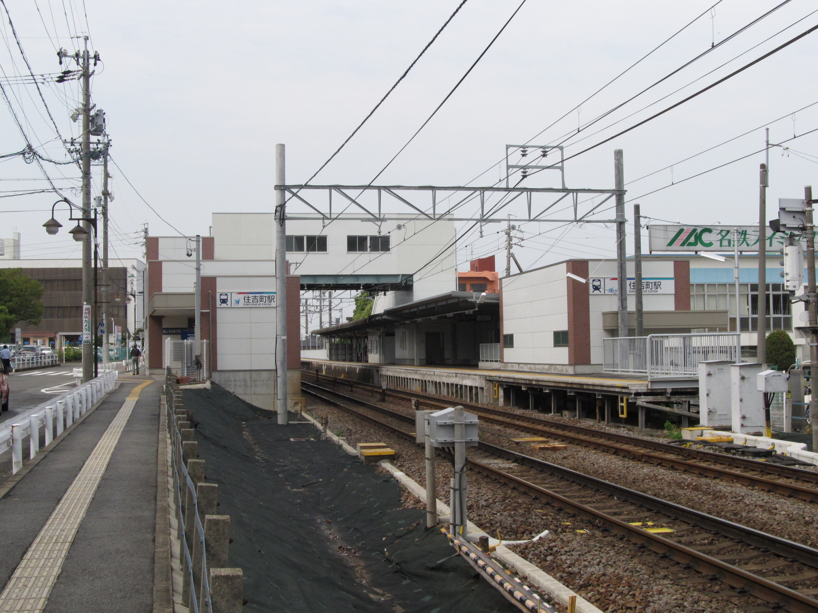 Nagoya Railroad Kowa Line Sumiyoshichō Station Building